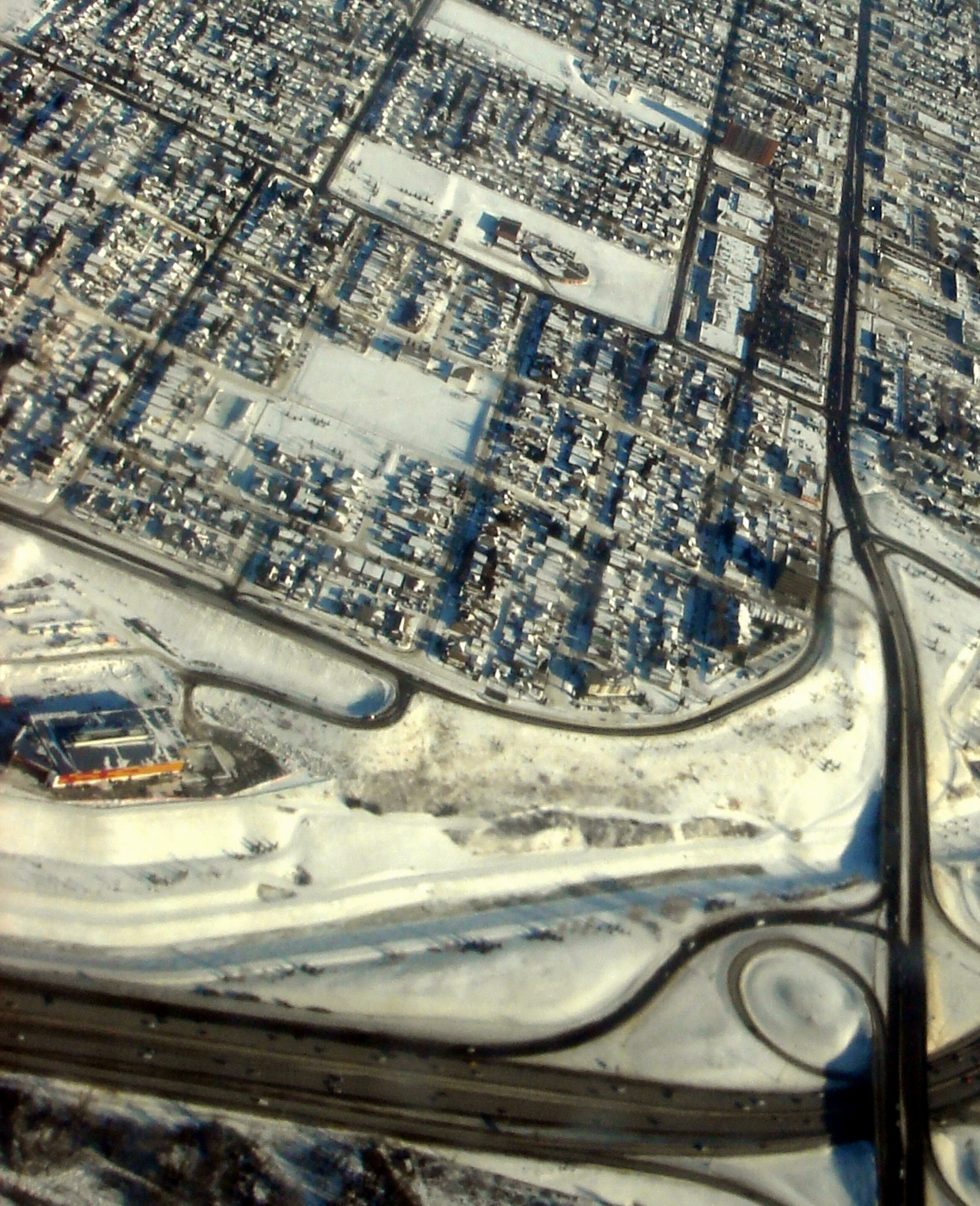 Aerial View of the neighbourhood of Albert Park and Radisson Heights in Calgary, Alberta, Canada. Max Bell Center in the lower left.